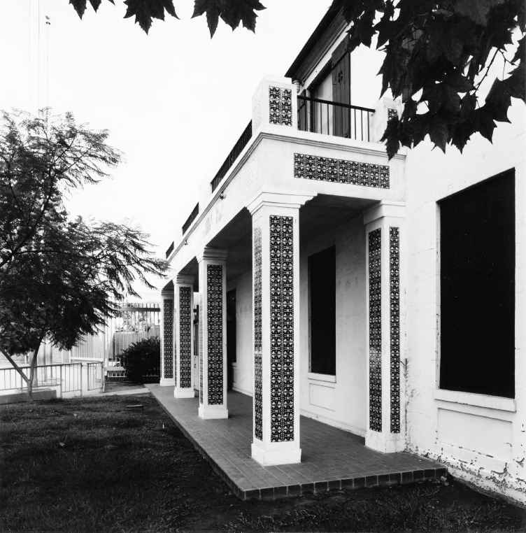 U.S. Custom House (San Ysidro, California), looking north towards the porch on the west façade